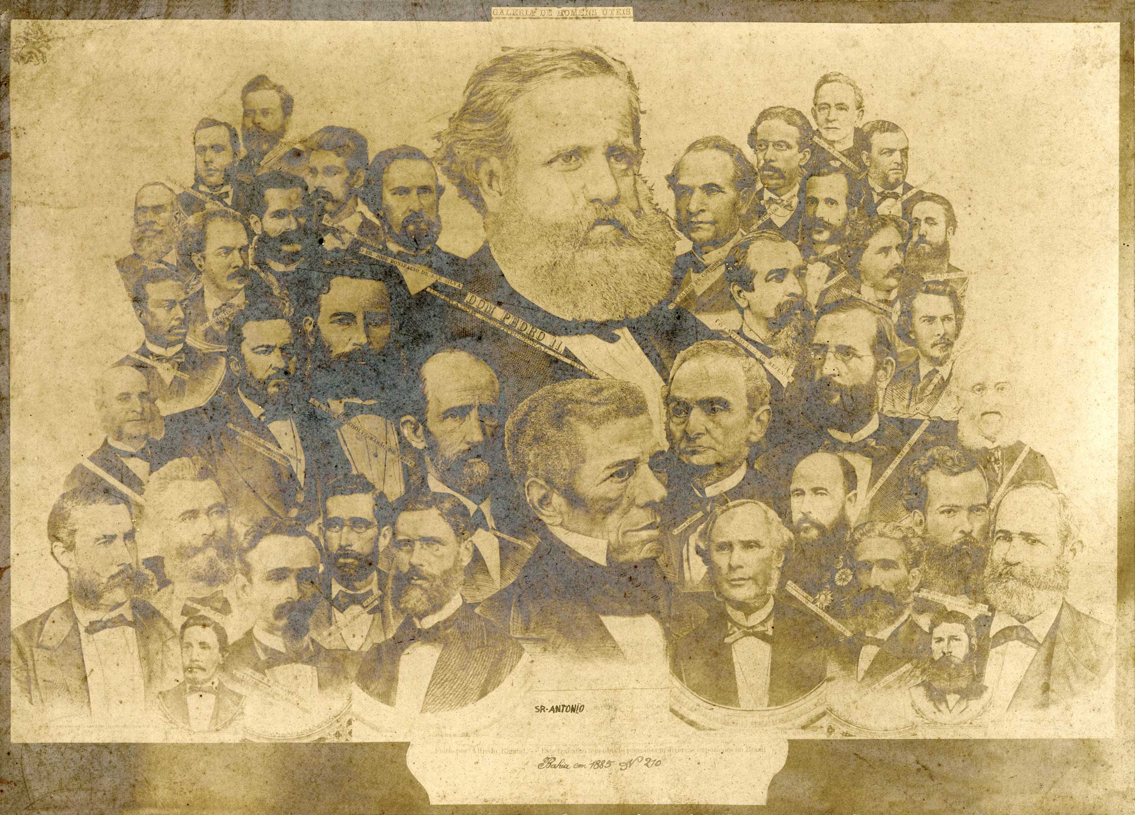 Emperor Dom Pedro II of Brazil surrounded by the main national politicians of c.1875.